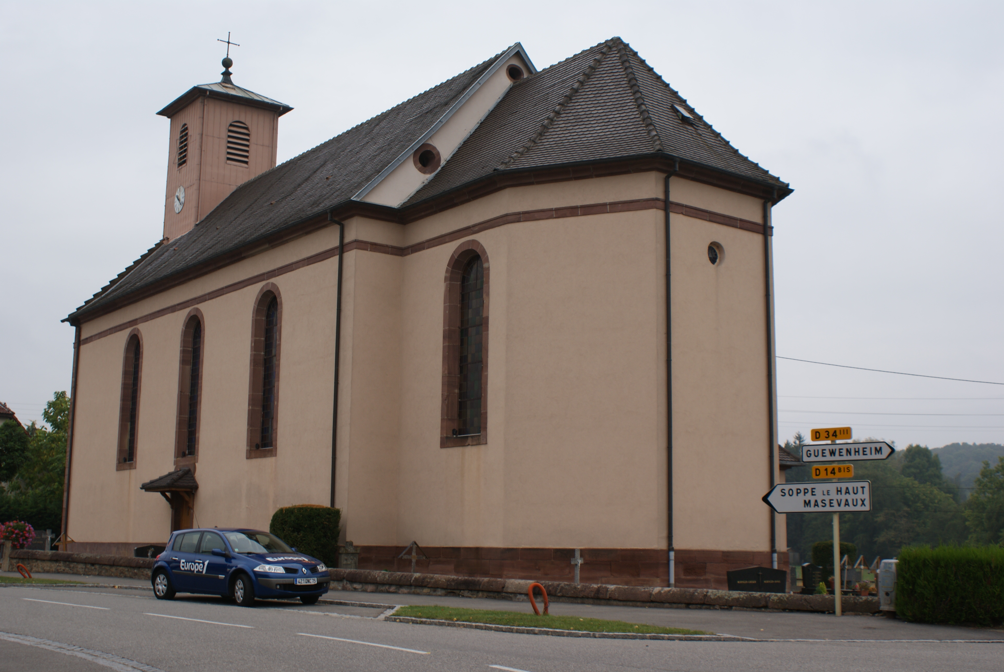 CHURCH OF SAINT VINCENT SOPPE-LE-BAS